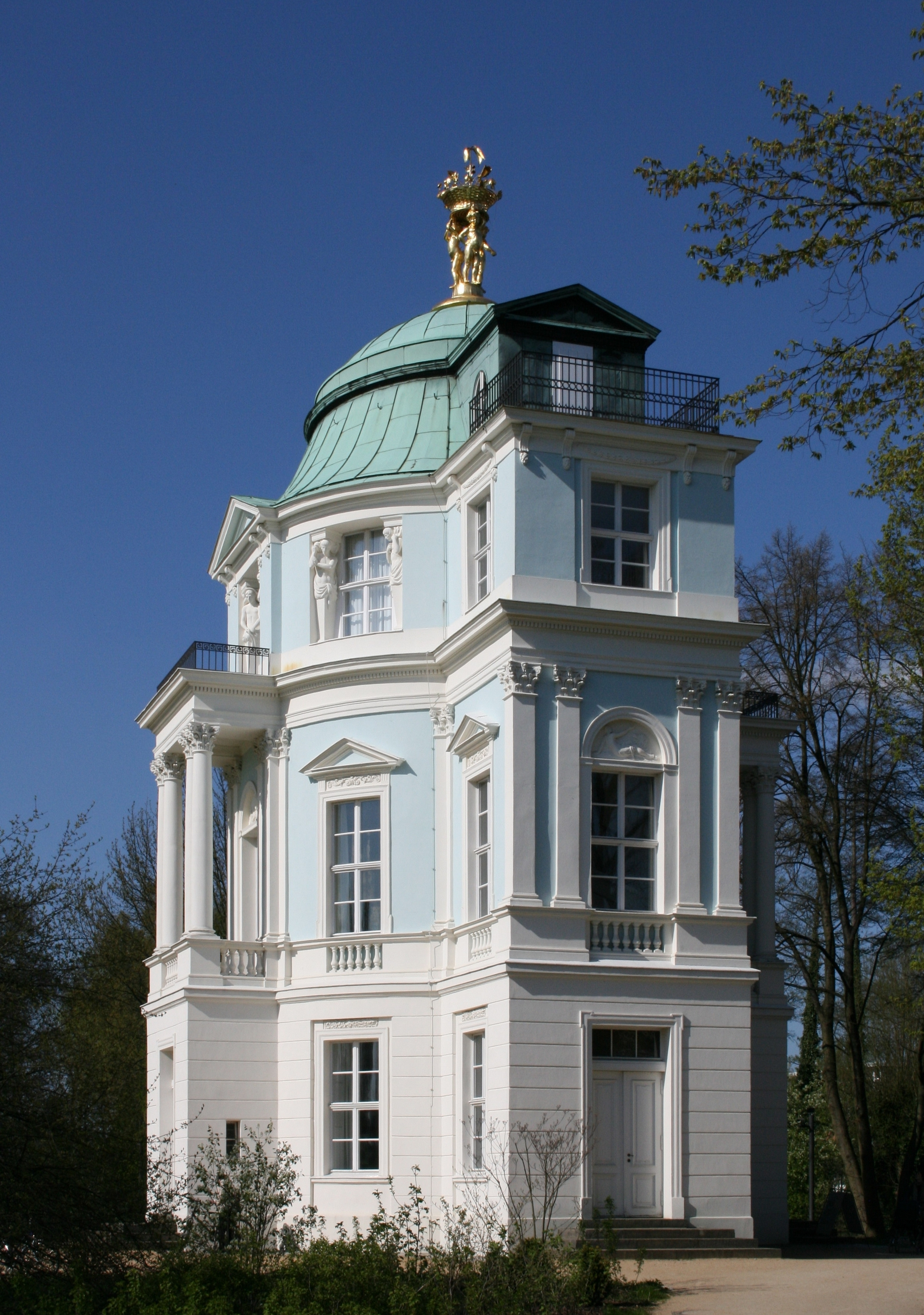 Berlin, Germany: Tea house "belvedere" in Schlossgarten Charlottenburg